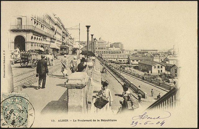 Postcard of Algiers, June 29, 1904 Creator: Idéale Date: June 29, 1904 Accession number: 970031 BOX I Featured in the exhibition, Walls of Algiers: Narratives of the City, May 19 - October 18, 2009 at the Getty Research Institute. Part of the ACHAC (Association Connaissance de l’histoire de l’Afrique contemporaine) collection in the Getty Research Institute Library's special collections. View the finding aid for the ACHAC collection.